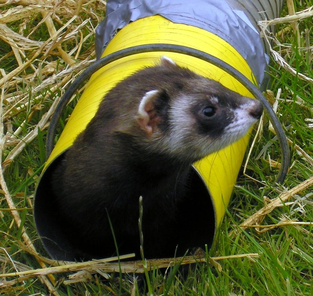 Ferret Racing at the Royal Highland Show This lass was named Daisy, and she won me £2.00